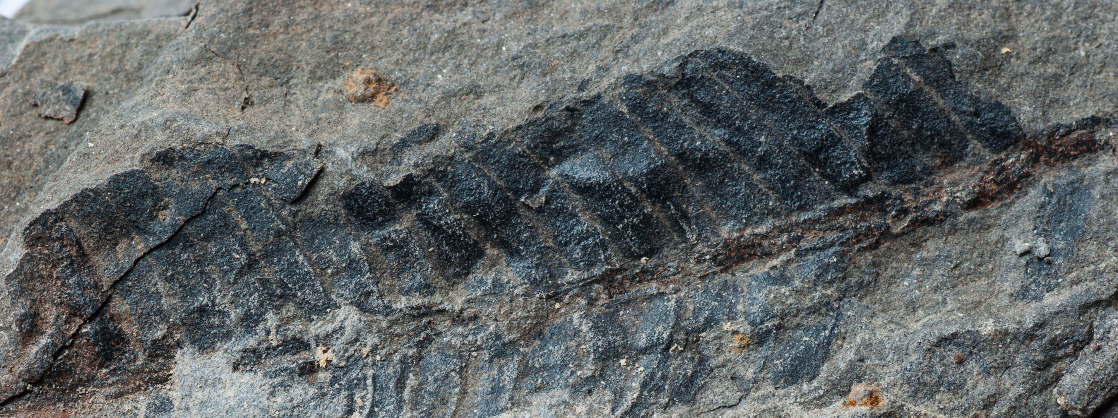 Leaf of the Lunz flora with a length of 5 cm, probably a member of the Bennettitales